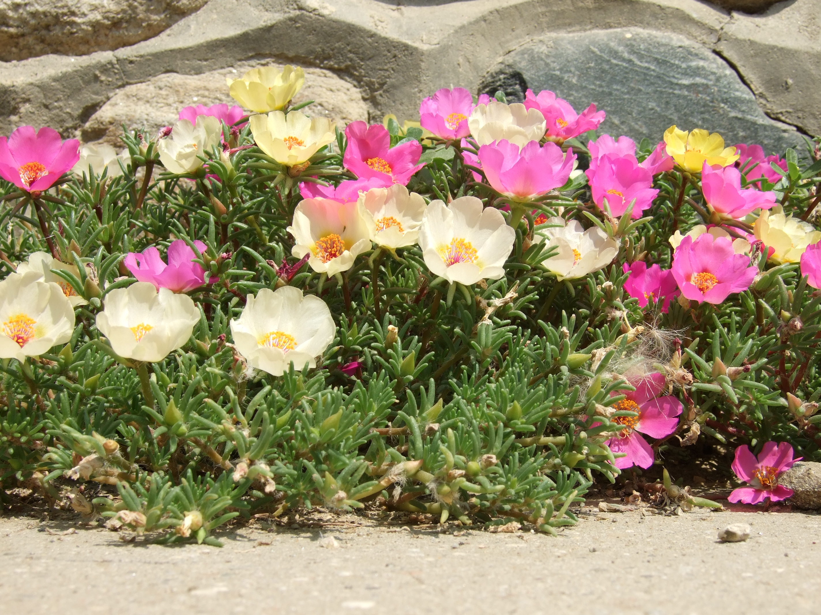 Sunny summer